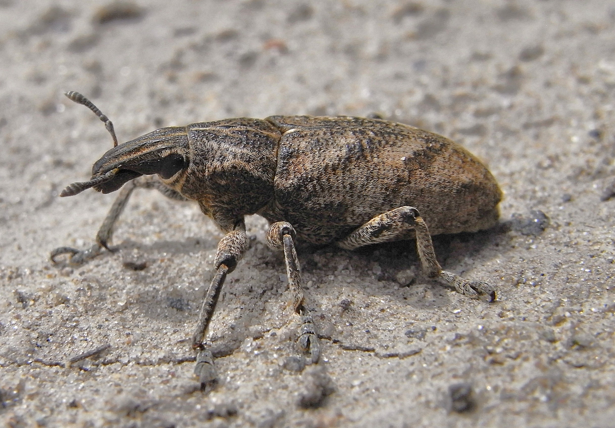 Cleonis pigra from Hungary little west of Mohacs, at 2010-05-14Ricoh R8